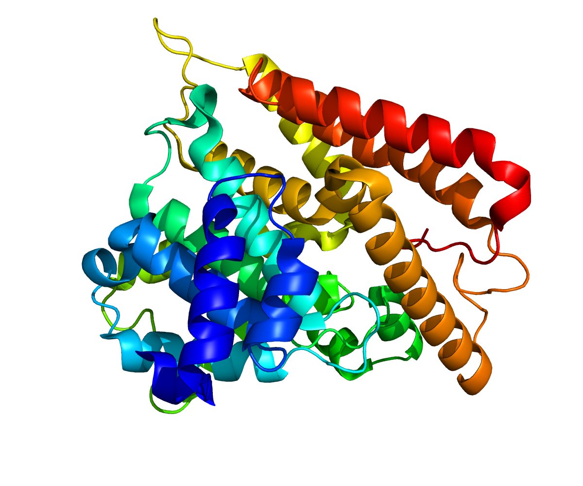 Structure of protein PDE4C.Based on PyMOL rendering of PDB 1LXU.